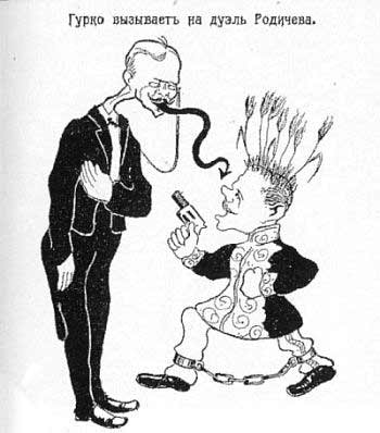 Gurko challenges Rodichev to a duel. Caricature